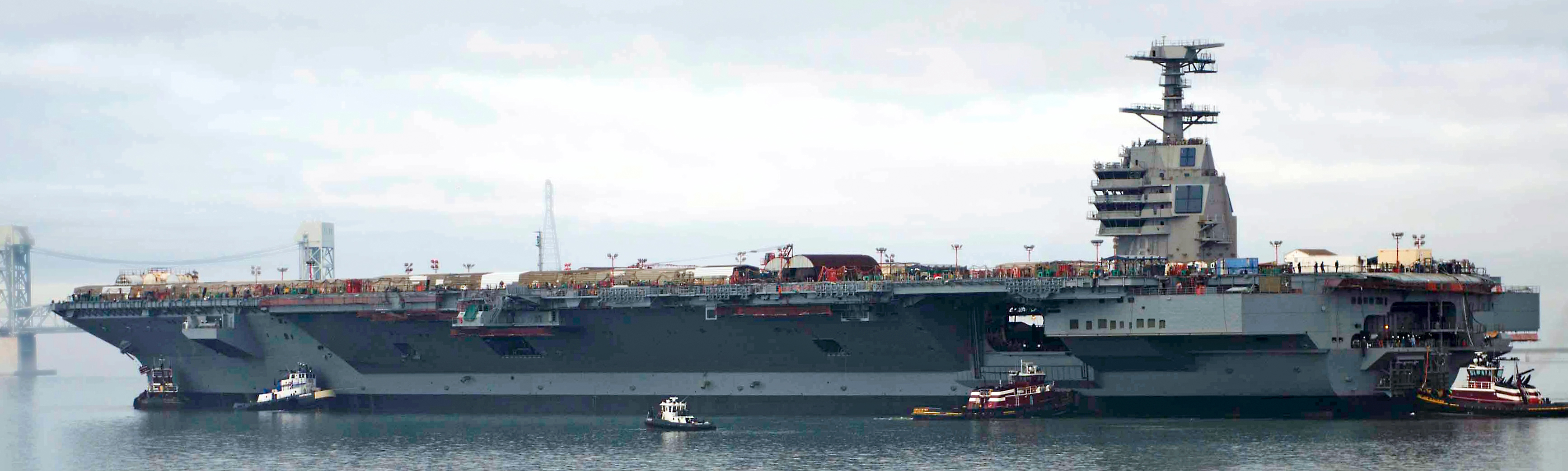 The U.S. Navy aircraft carrier USS Gerald R. Ford (CVN-78) transits the James River during the ship's launch and transit to Newport News Shipyard pier three for the final stages of construction and testing. Ford was christened on 9 November 2013, and was under construction at Huntington Ingalls Industries Newport News Shipyard, Virginia (USA).